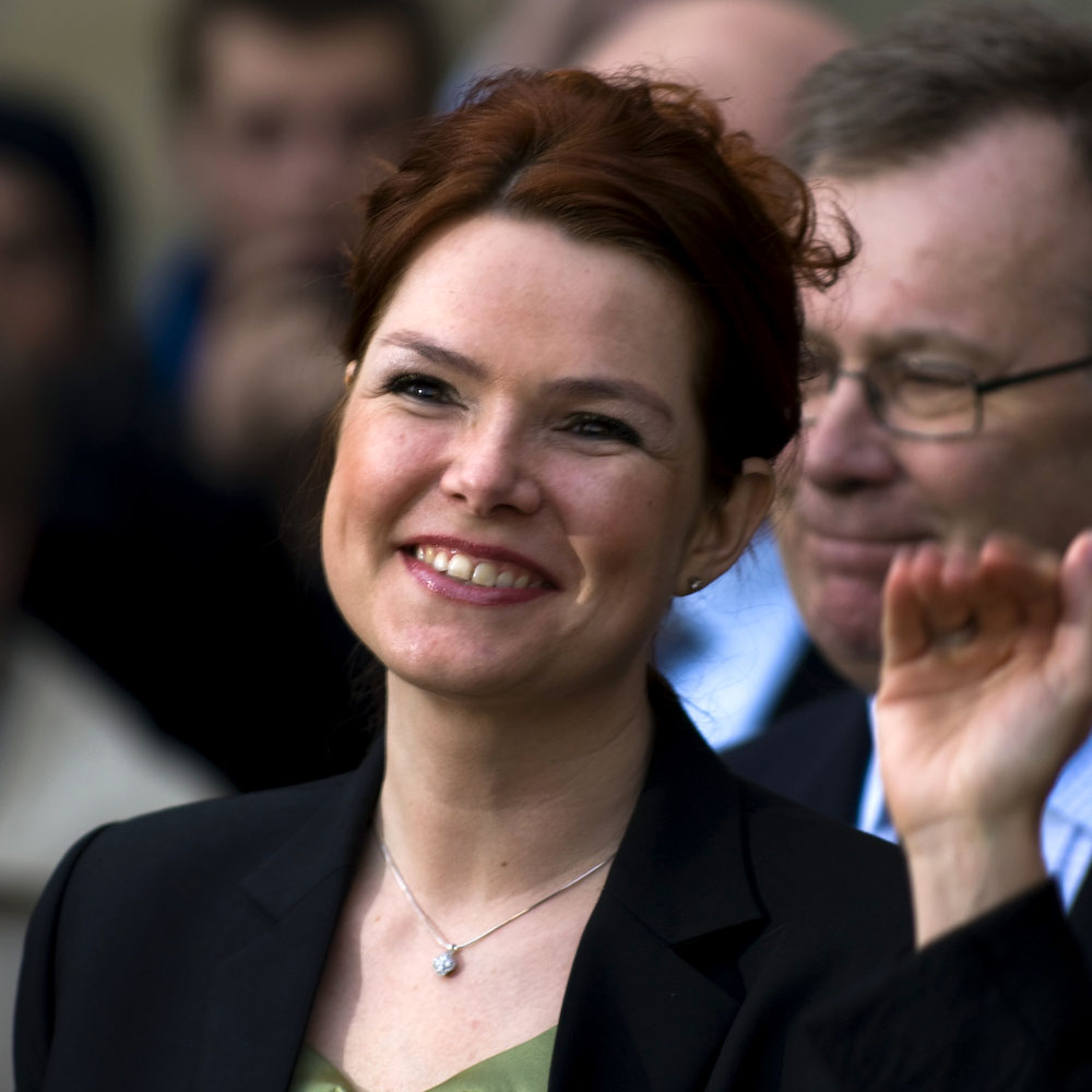 Inger Støjberg introduced as the new Minister for Occupation and Equal Rights